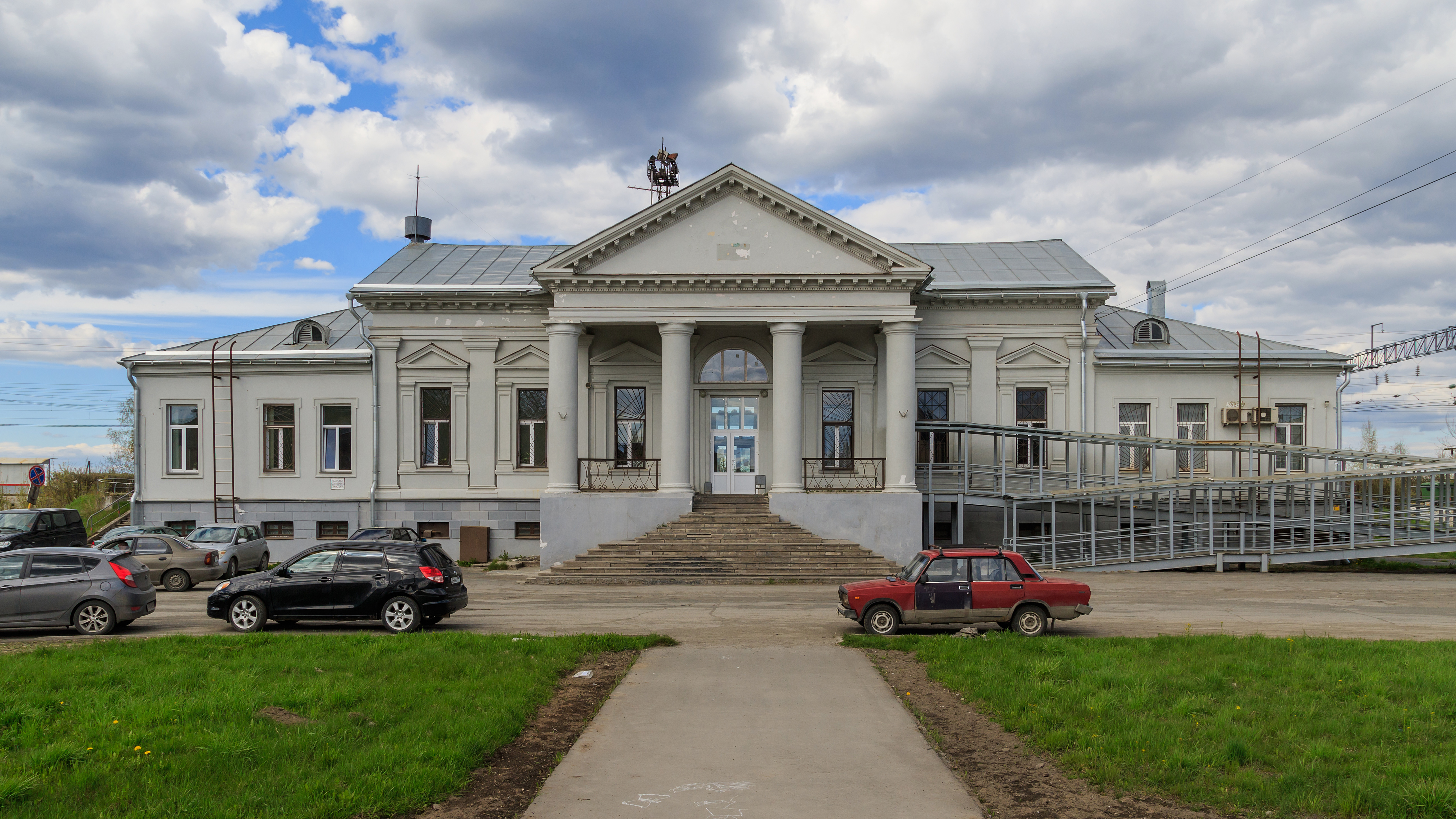 Railway station in Kondopoga, Republic of Karelia (Russia).